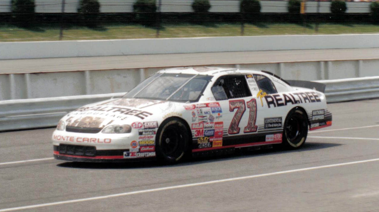 NASCAR veteran Dave Marcis at Pocono in 1997.